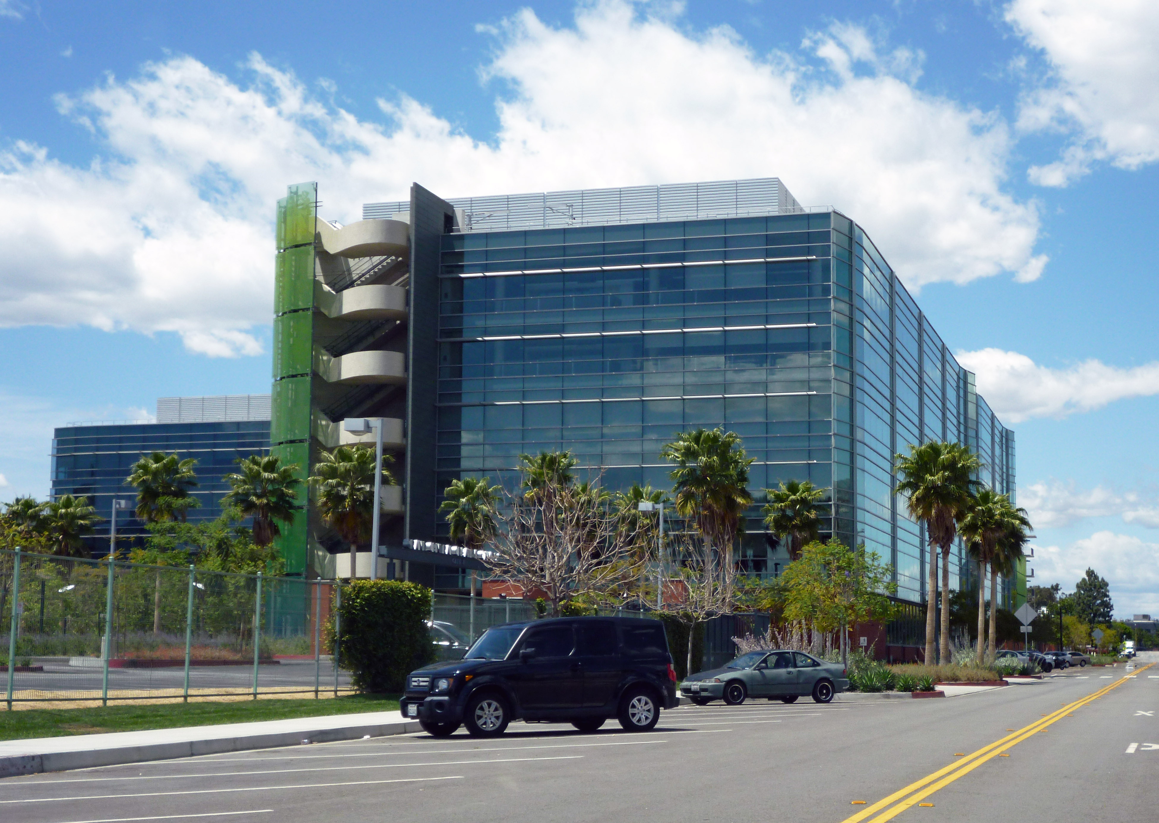 Disney Interactive's offices at 1200 Grand Central Avenue in Glendale, California, in the Grand Central Business Park.